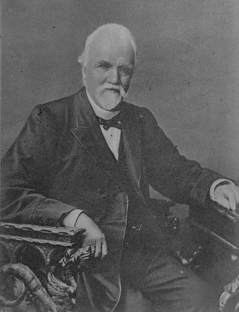 Portrait of Charles Moore (copied by NSW Gov. Printer)